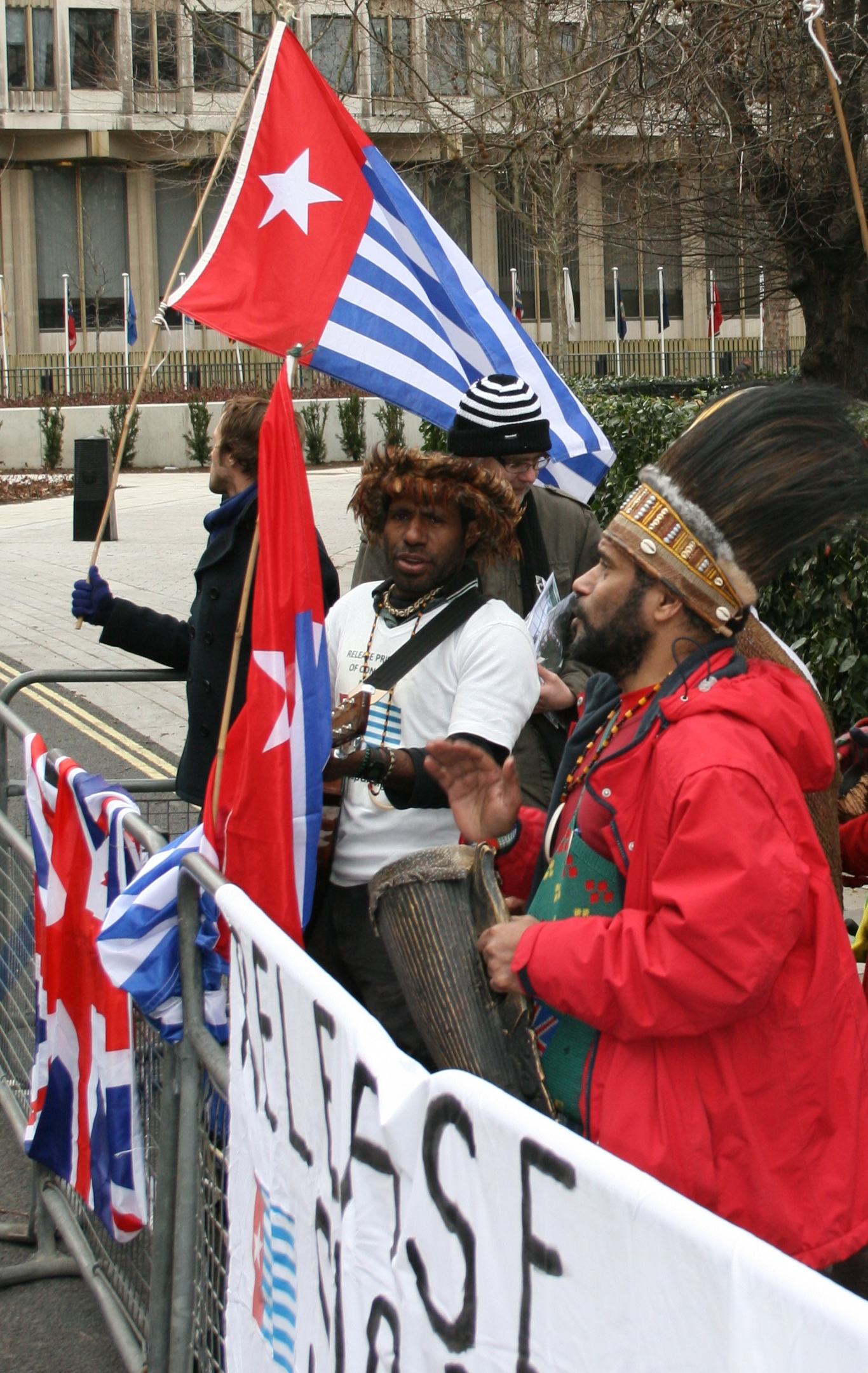 Protest in the United Kindgdom over the arrest of Bukhtar Tabuni and Sebby Sambom